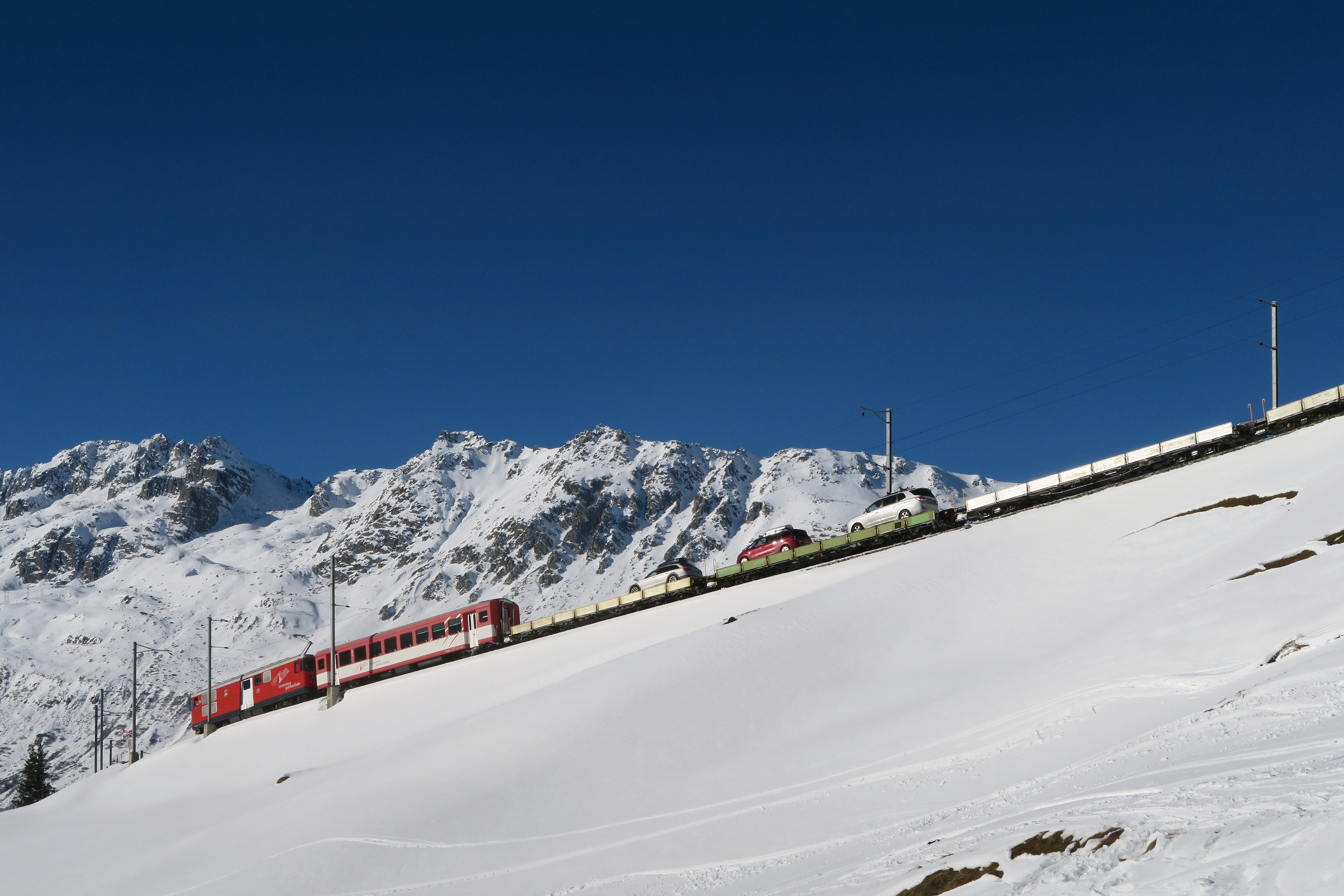 A car transport train of the Matterhorn–Gotthard-Bahn in Switzerland, linking Sedrun and Andermatt over the Oberalp Pass, where the road is closed during the Winter. Train is lead by Deh 4/4 22 "St. Niklaus", followed by passenger coach B 2282. As the journey takes around one hour, drivers and passengers travel in the railway coach.